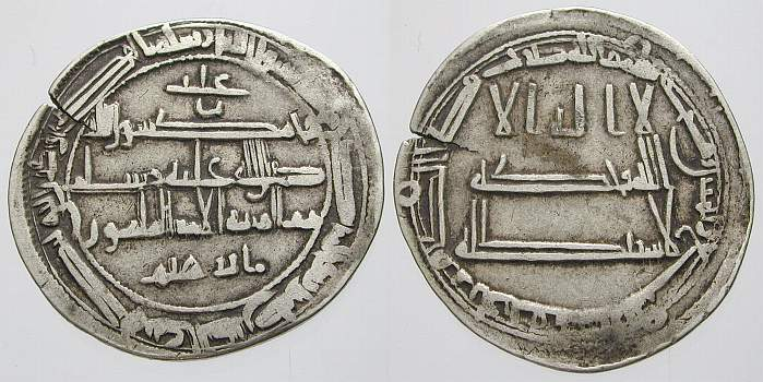 Aghlabid Dirham (silver), minted in Kairouan in 189 AH, with the names of the Abbasid caliph al-Ma'mun and the first Aghlabid emir Ibrahim I (Ibrahim ibn al-Aghlab)